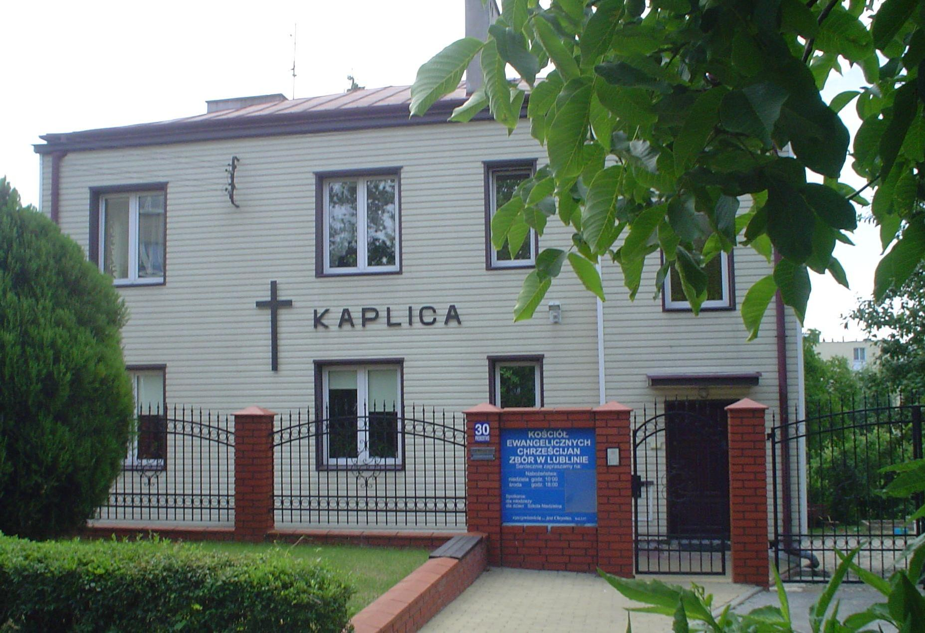 Evangelical Christian Church, Lublin, Poland